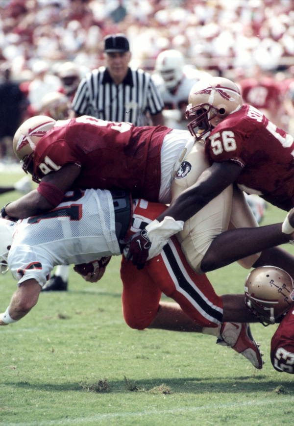 Local call number: PR12816 Title: Florida State University versus the University of Miami at Doak Campbell Stadium: Tallahassee, Florida Date: October 4, 1997 General note: FSU beat Miami 47-0. Sacking UM quarterback Ryan Clement are Char-ron Dorsey (#91) and Roland Seymour (#56). Corey Simon (#53) is visible in the bottom right. Physical descrip: 1 photonegative - b&w - 35 mm. Series Title: Print collections Repository: State Library and Archives of Florida, 500 S. Bronough St., Tallahassee, FL 32399-0250 USA. Contact: 850.245.6700. Persistent URL: Visit Florida Memory to learn more about the history of college football in Florida.